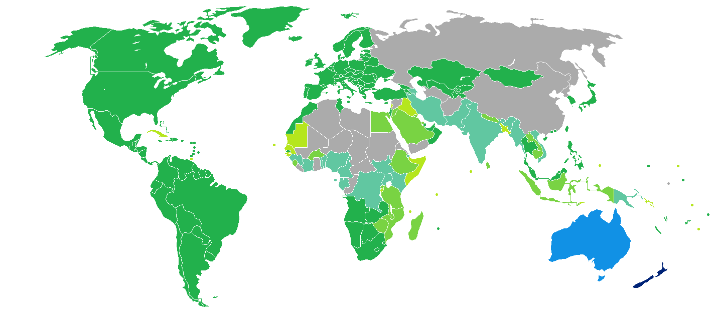 Visa requirements for New Zealand citizens. New Zealand Trans-Tasman Travel Arrangement Visa free access Visa on arrival eVisa Visa available both on arrival or online Visa required